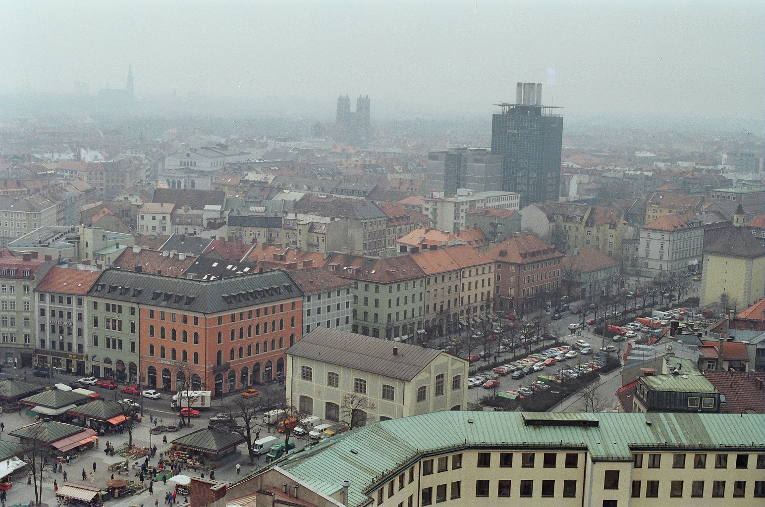 The Blumenstraße in Munich in 1987. The parking lot on the right side was built over with the Schrannenhalle in 2005.